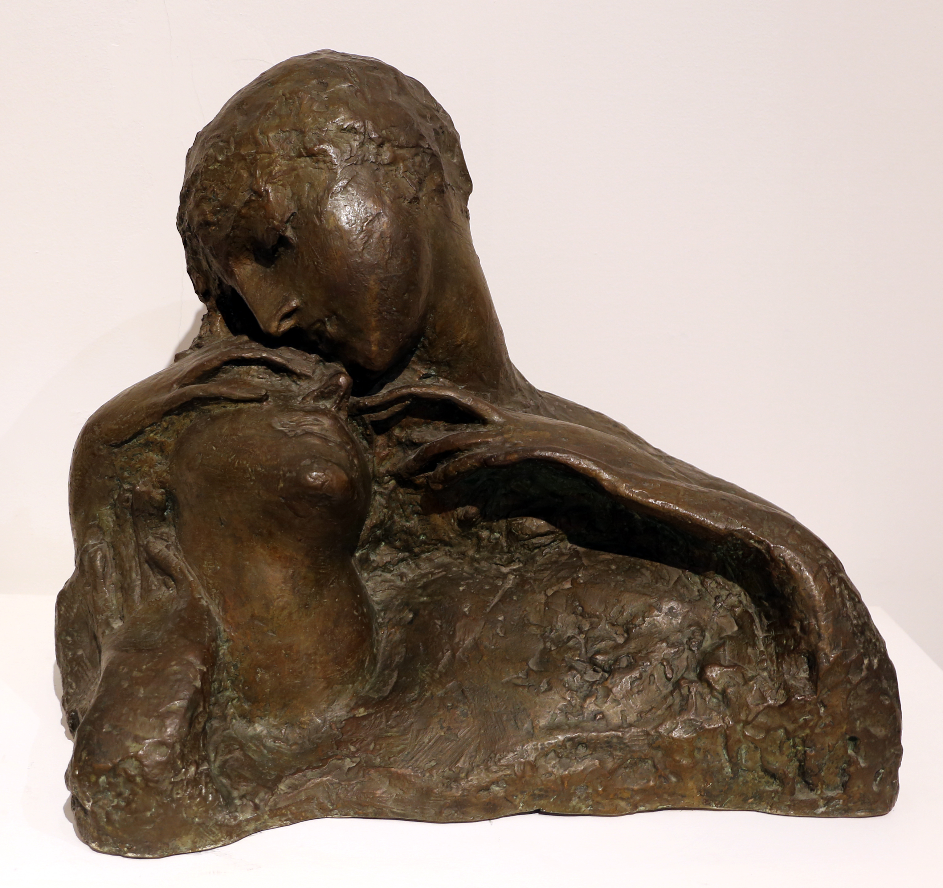 Museo Napoli Novecento